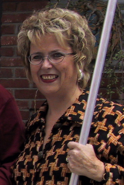 President Judy Darcy and members of the Canadian Union of Public Employees on strike for over a year in PEI (5 employee social service agency) greet PEI premier in Toronto at Tory fundraiser.